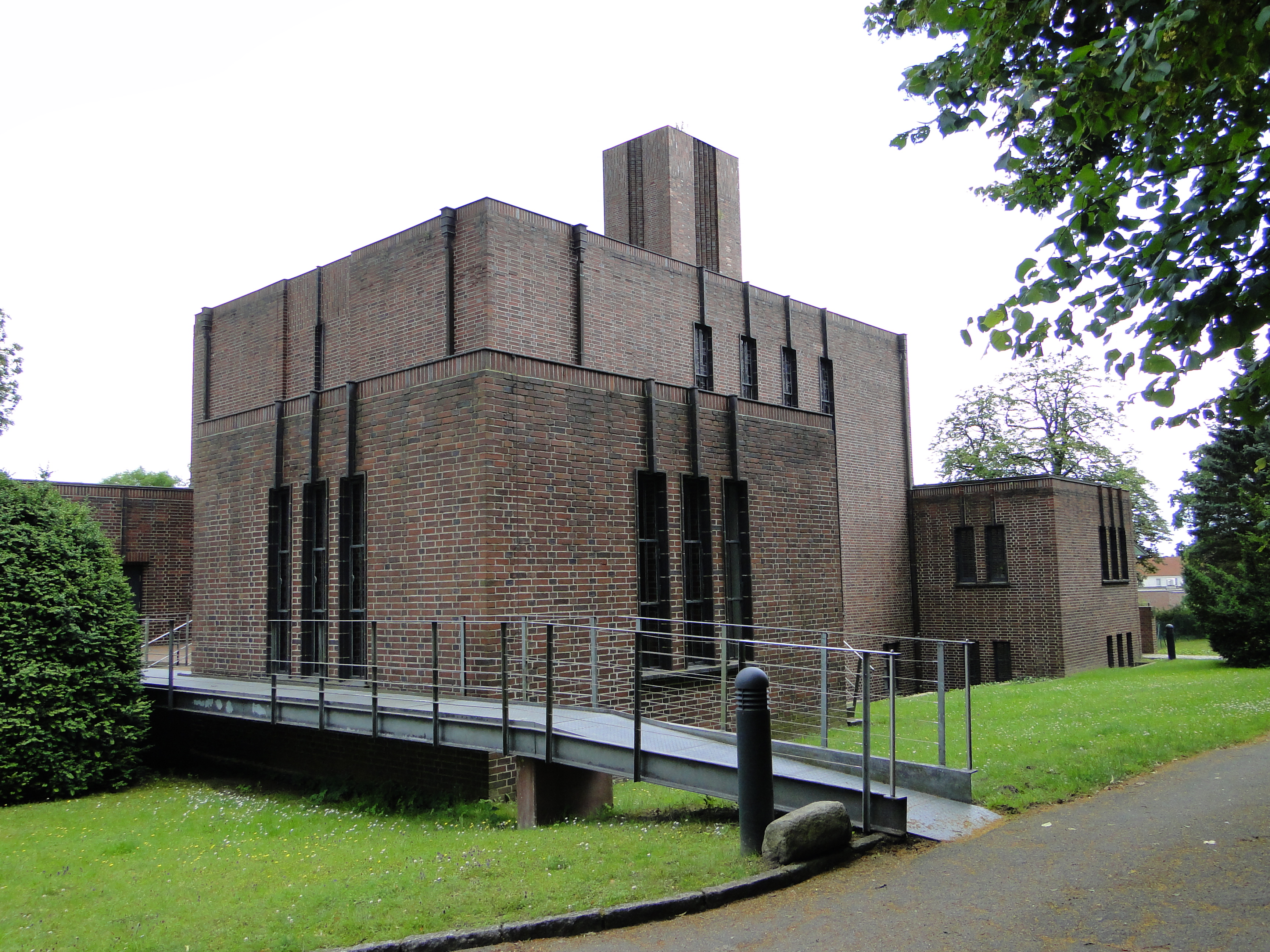 Old cemetery in Schwerin, Mecklenburg-Vorpommern, Germany